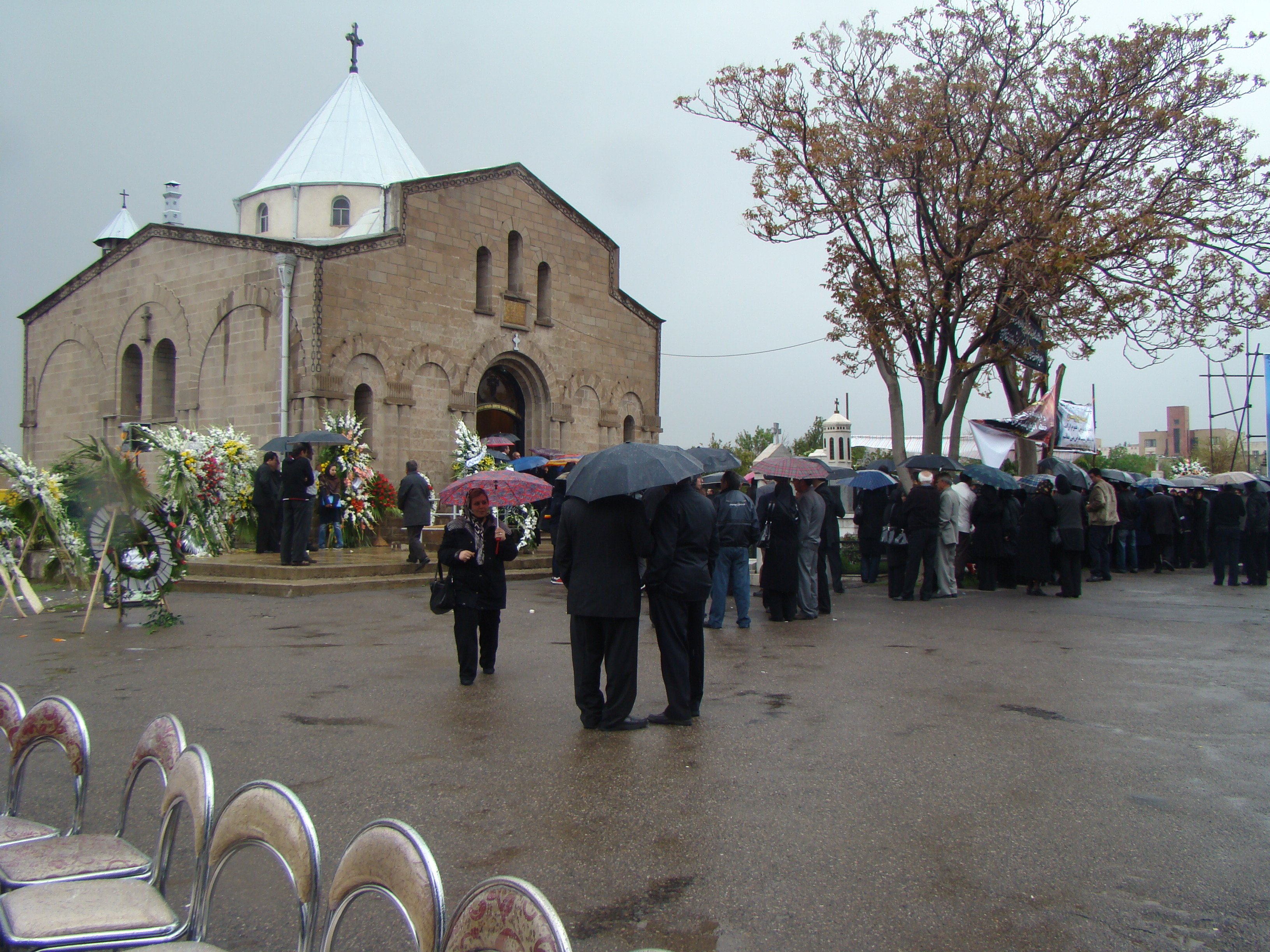 Interment of Mr,Neshan Topoziyan - Tabriz